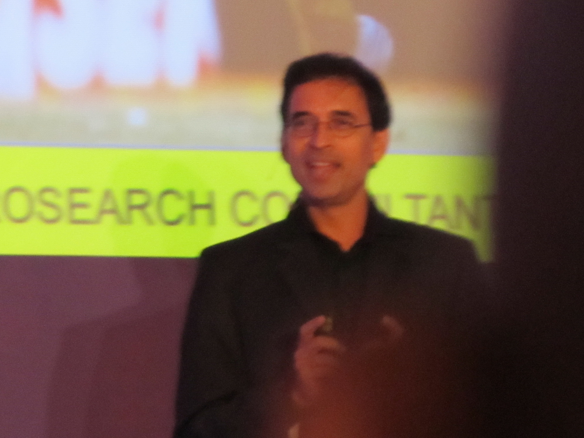 Harsha Bhogle at Gartner Symposium IT xpo 2011 at Mumbai